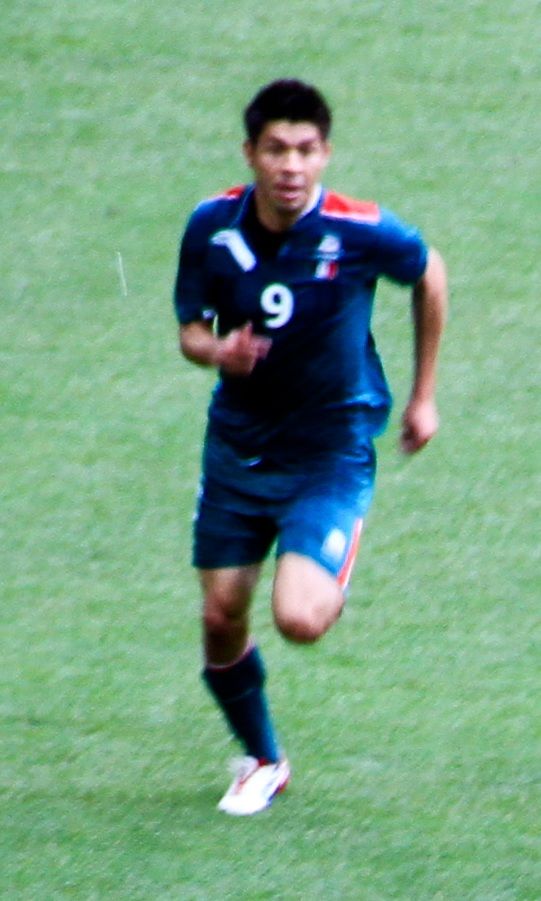 Mexico player Oribe Peralta